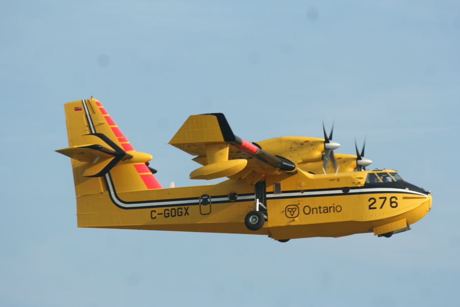 Canadair CL-415 operating on "Fire watch" out of Red Lake, Ontario, Canada, 2007.